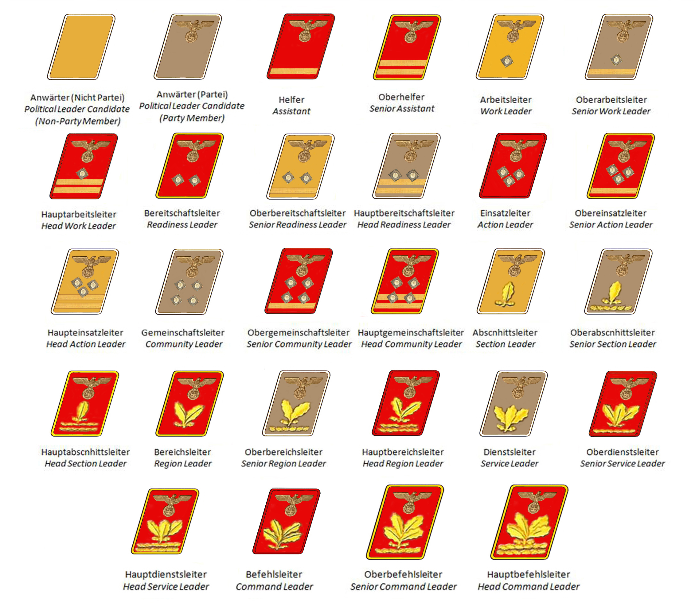 Drawings of Nazi Party rank insignia